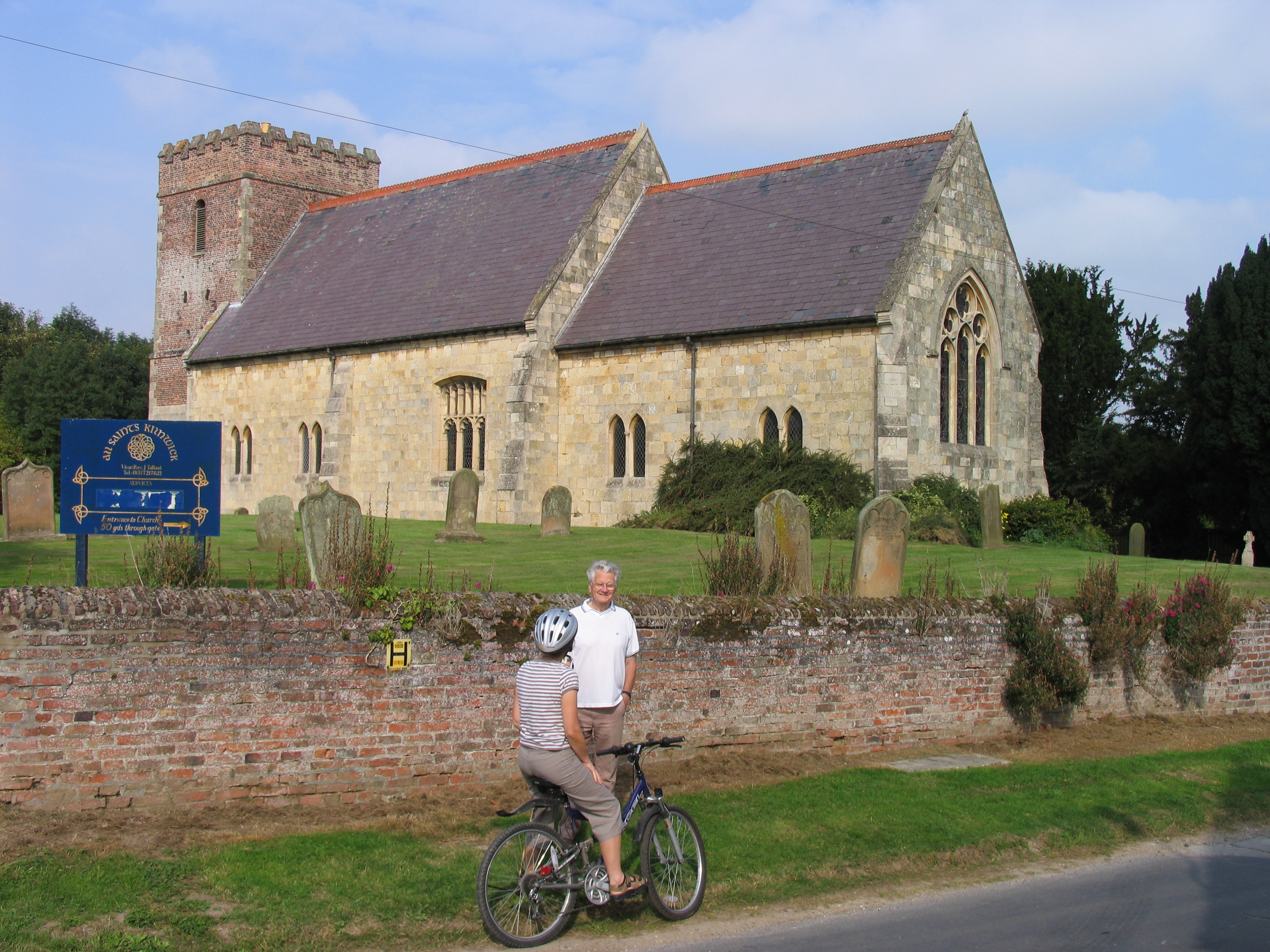 All Saints parish churchKilnwick, East Riding of Yorkshire, England.Seen from Church Road (to the South-East).